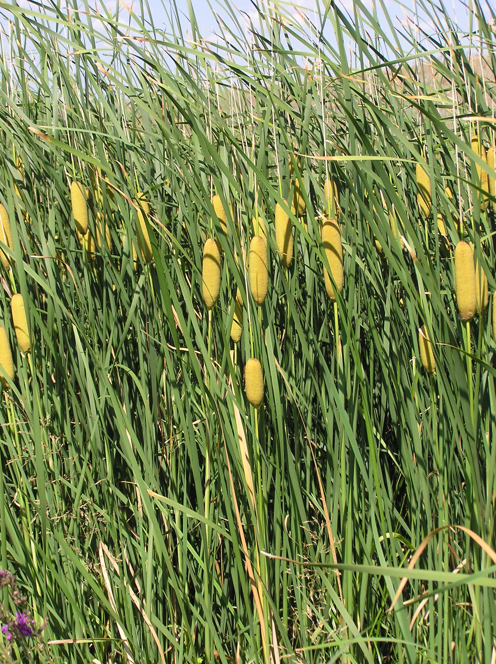 Typha laxmannii Lepech (Laxman's cattail), an unusual specimen with yellow female inflorescences in late summer. Habitat: along a small creek in steppe. Vicinity of Saratov city, Russia.